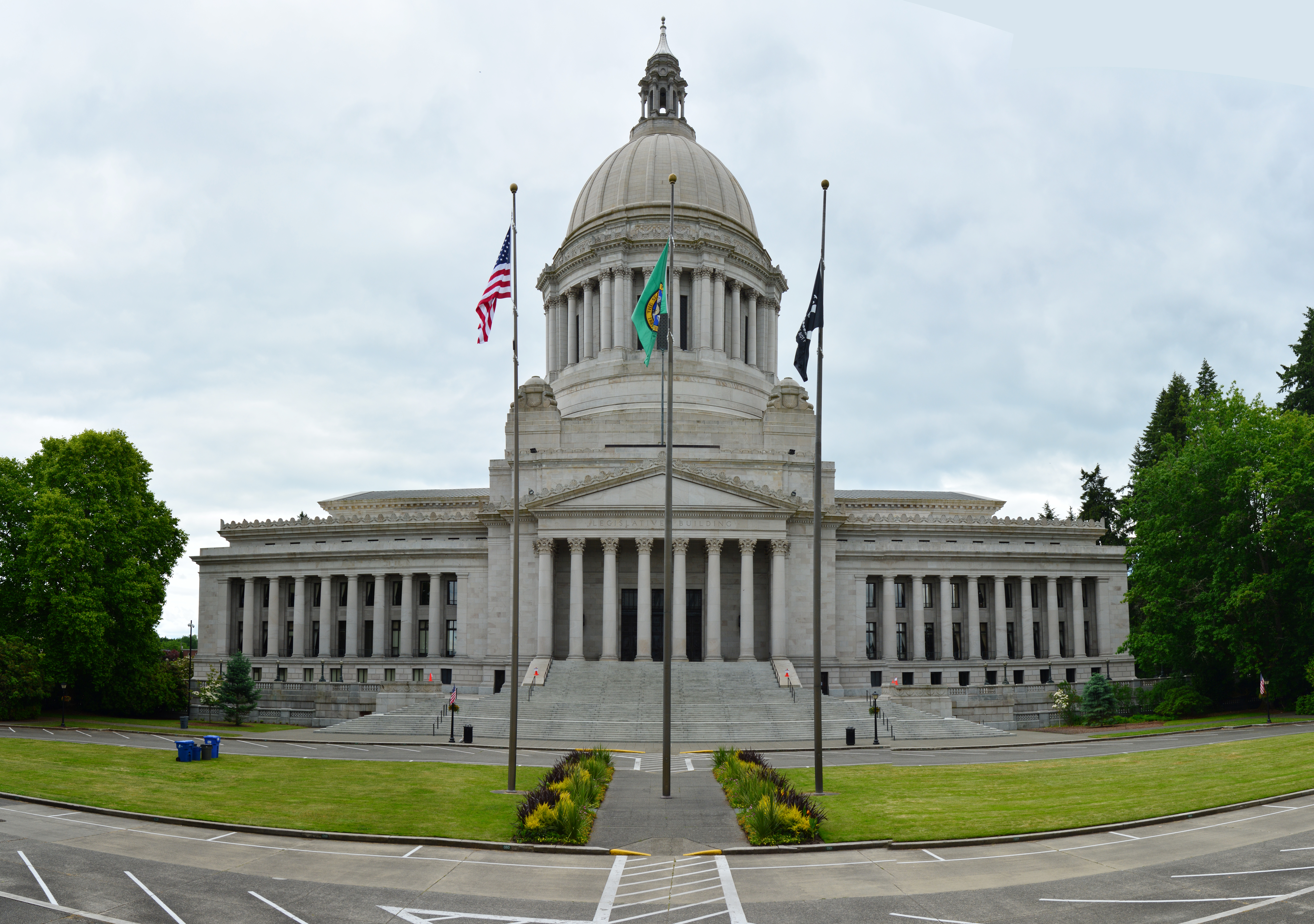 Panoramic view of Washington State Capitol Legislative Building, Olympia, Washington, seen from the north. This image was created with Hugin.